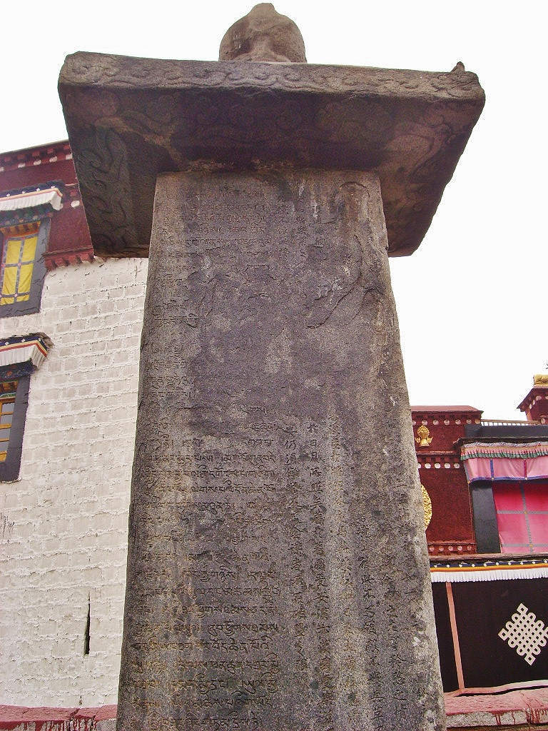 The Sino-Tibetan Treaty Inscription (front side) which was erected in 823, stands outside the Jokhang temple in Lhasa, China. A bilingual (Chinese and Tibetan) account of a peace treaty was inscribed on.